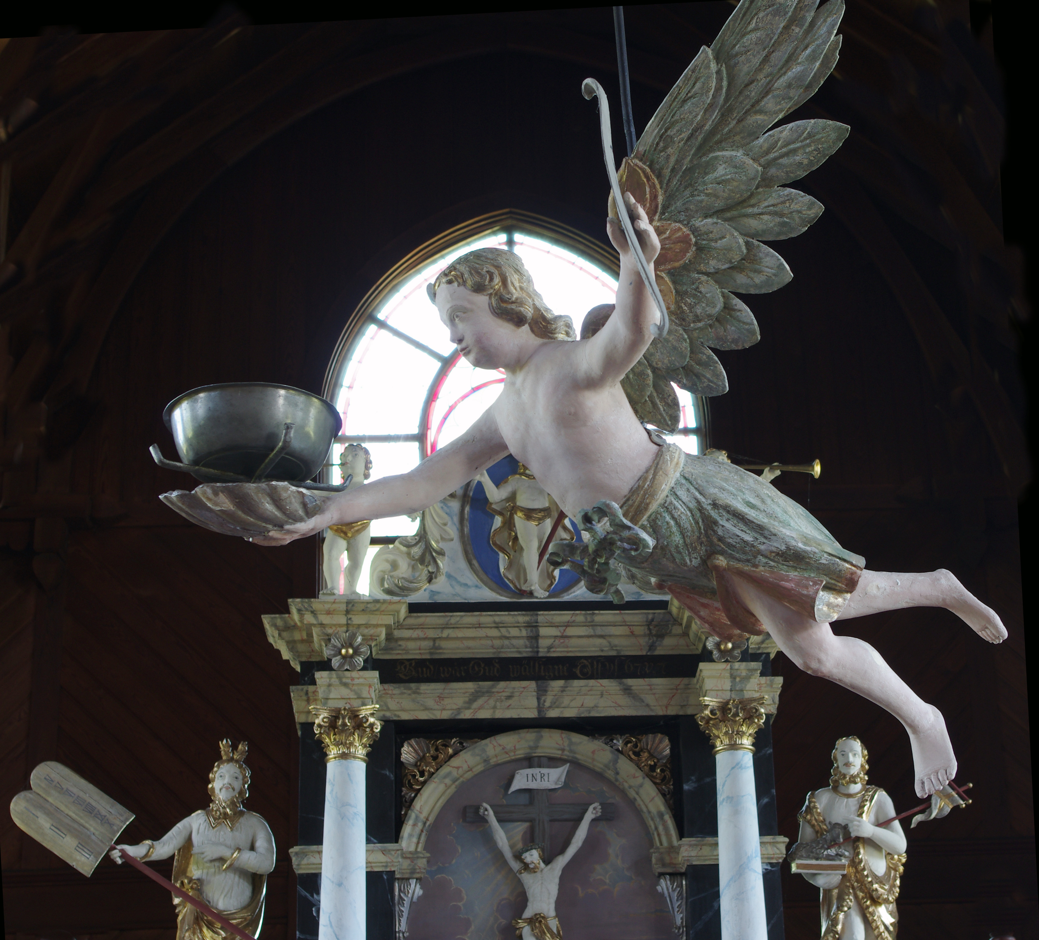 Bjurbäcks kyrka (swedish: church of Bjurbäck), Västergötland, Sweden.